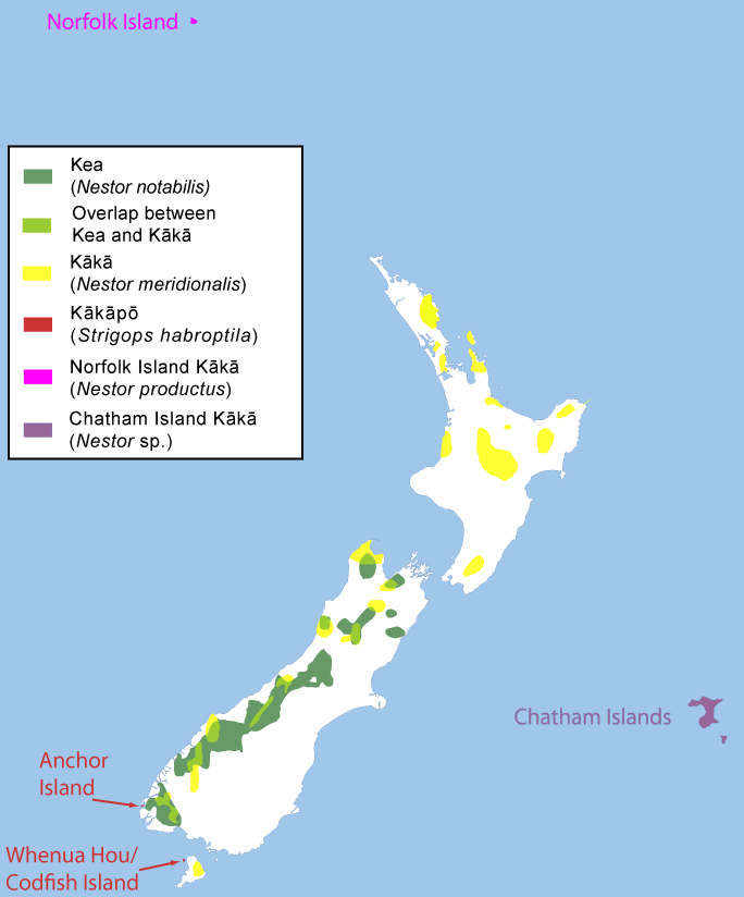 Current distribution of various species of the family Nestoridae Nestor notabilis Nestor meridionalis Strigops habroptila Nestor productus